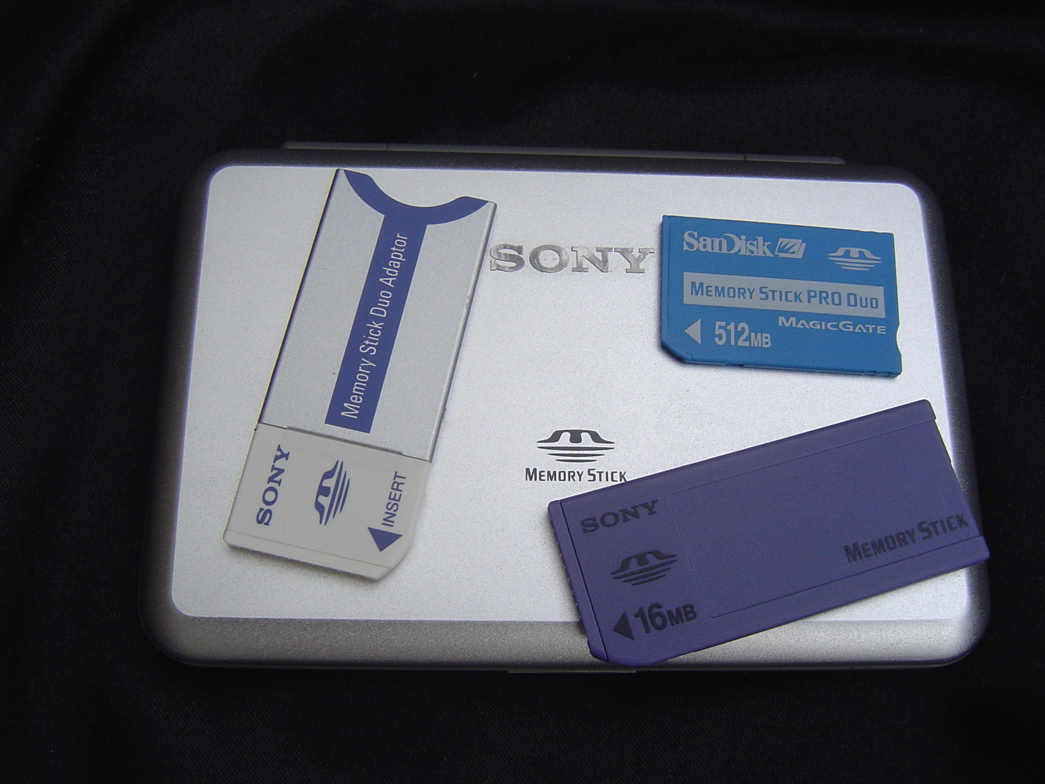 Sony Memory Stick. Own stick and own work